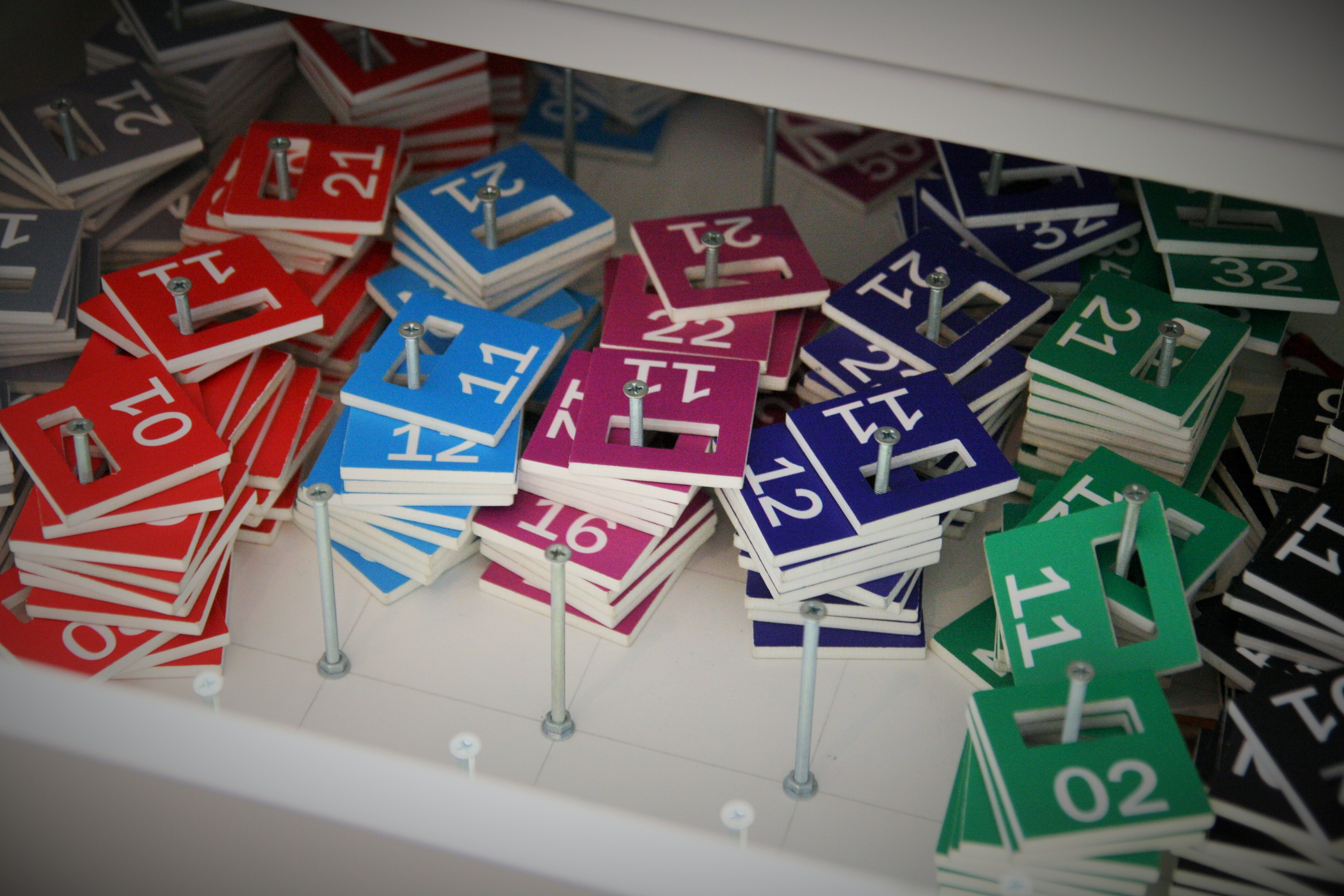 6th czech Wikiconference 29th November 2014 in Observatory and Planetarium Brno. Detail from cloakroom